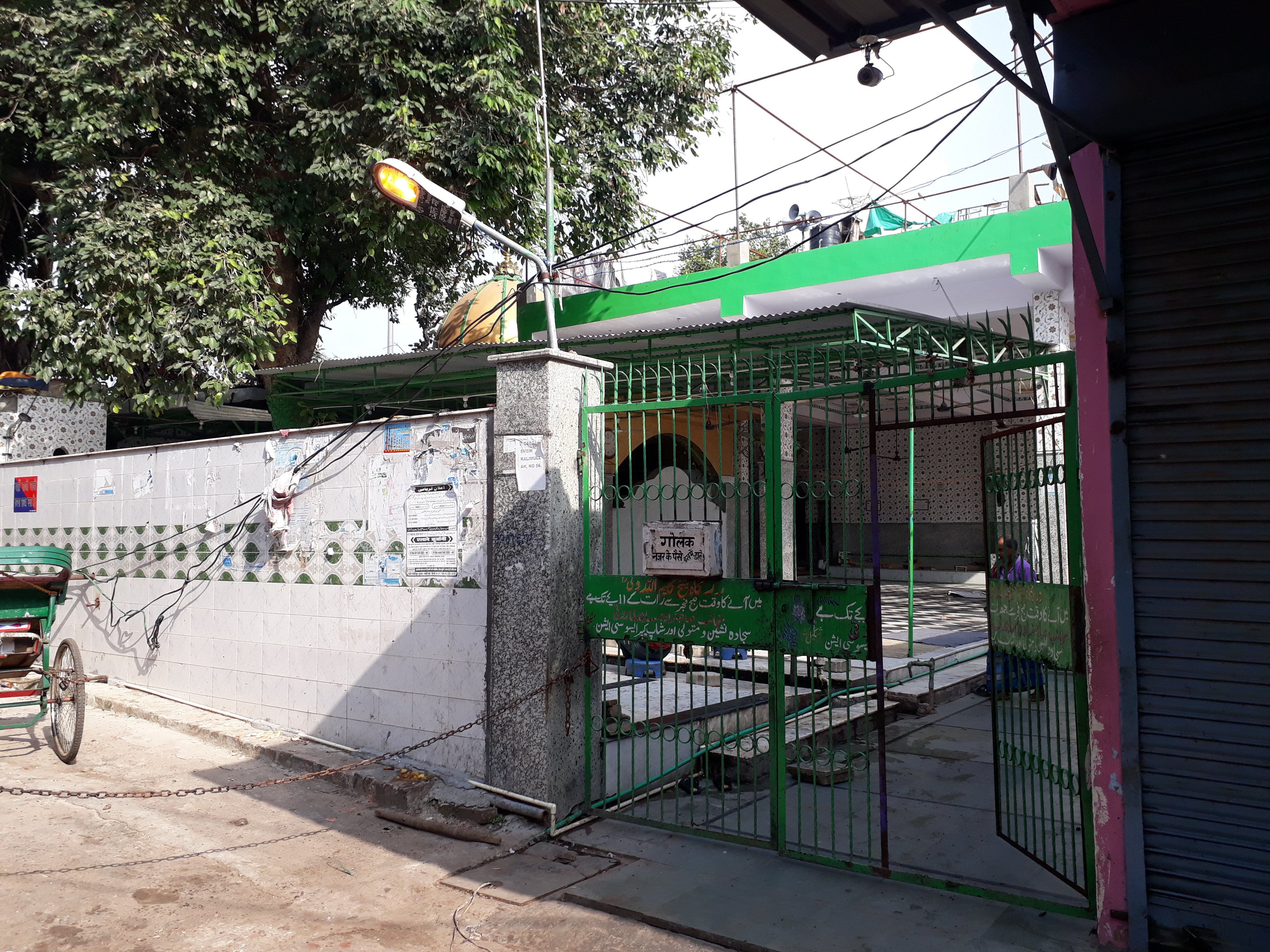 The shrine (Dargah) of Hazrat Kaleem Ullah Shah Jahanabadi situated opposite of the Red Fort, beside the Meena Bazaar. Old Delhi